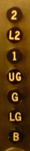 Floors buttons in the "Otis" lift of an oddly-numbered building in Salford University. From the bottom, the floors are: Basement, Lower Ground, Ground, Upper Ground, 1st, Lower 2nd and 2nd.